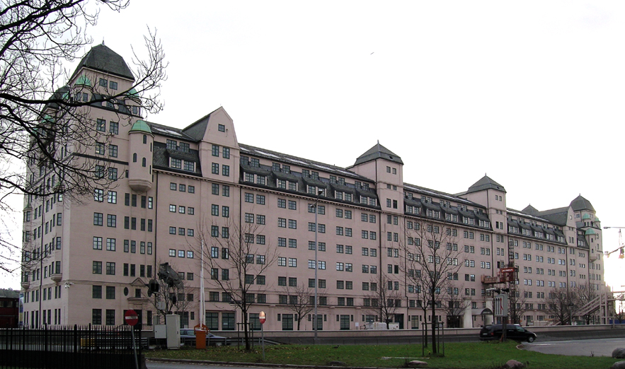 Oslo havnelager, Langkaia 1, Oslo. Built 1916-1920; architect Bredo Berntsen